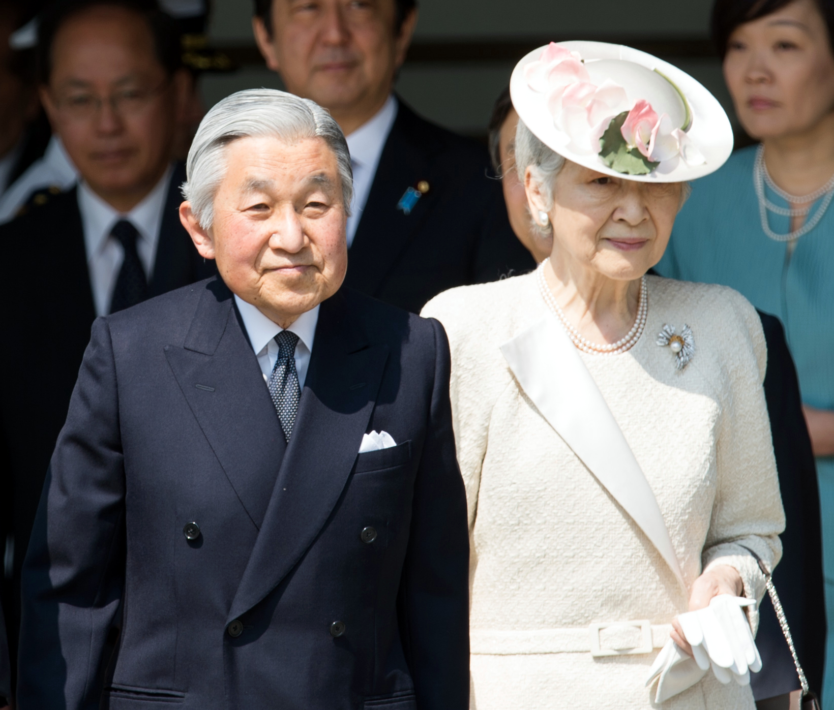 Barack Obama, President, met Emperor Akihito and Empress Michiko with Shinzō Abe, Prime Minister, and Akie Abe, Shinzō's wife, at the Tokyo Imperial Palace in Chiyoda Ward, Tōkyō Metropolis on April 24, 2014.